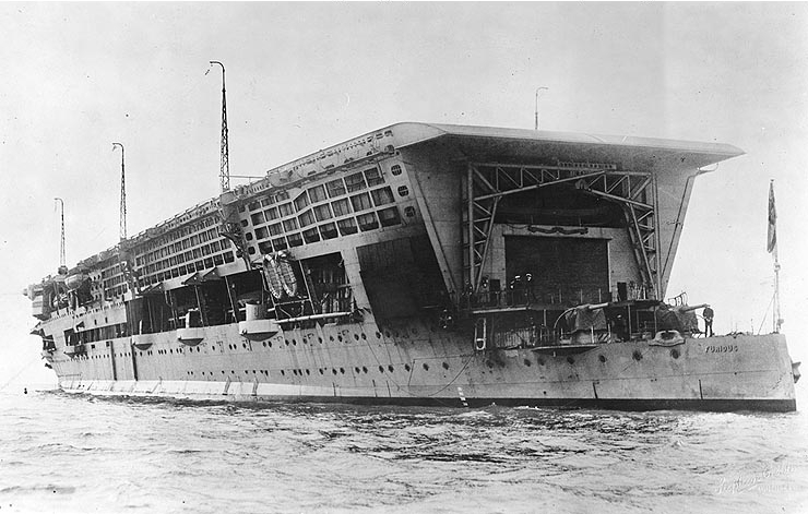 HMS Furious (British Aircraft Carrier, 1917-1948) Photographed from astern on 23 November 1925, following reconstruction. U.S. Naval Historical Center Photograph.